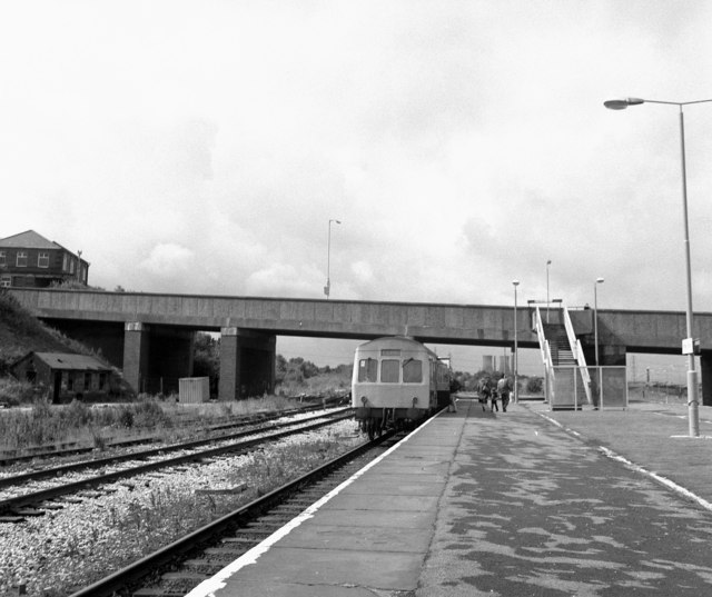 Rose Grove railway station